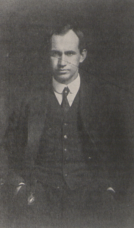 Tom Fennell, c. 1907